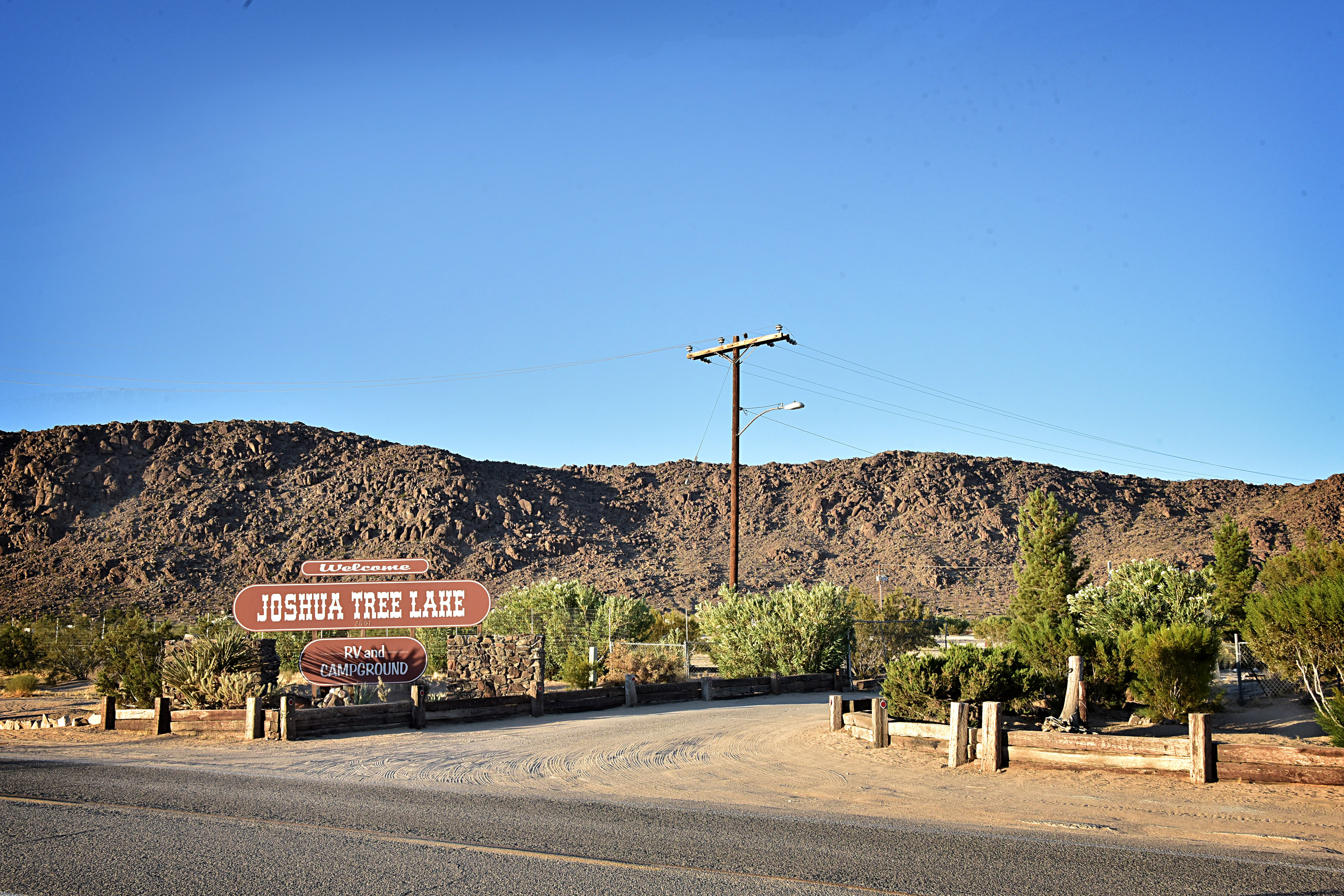 Joshua Tree Lake Campground entrance in Joshua Tree California on June 27, 2017 - Photo by Glenn Francis of